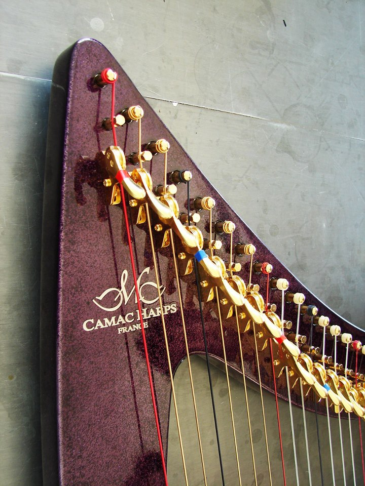 A Harp especialy made for Athy, The Electric Harpist from Argentina.